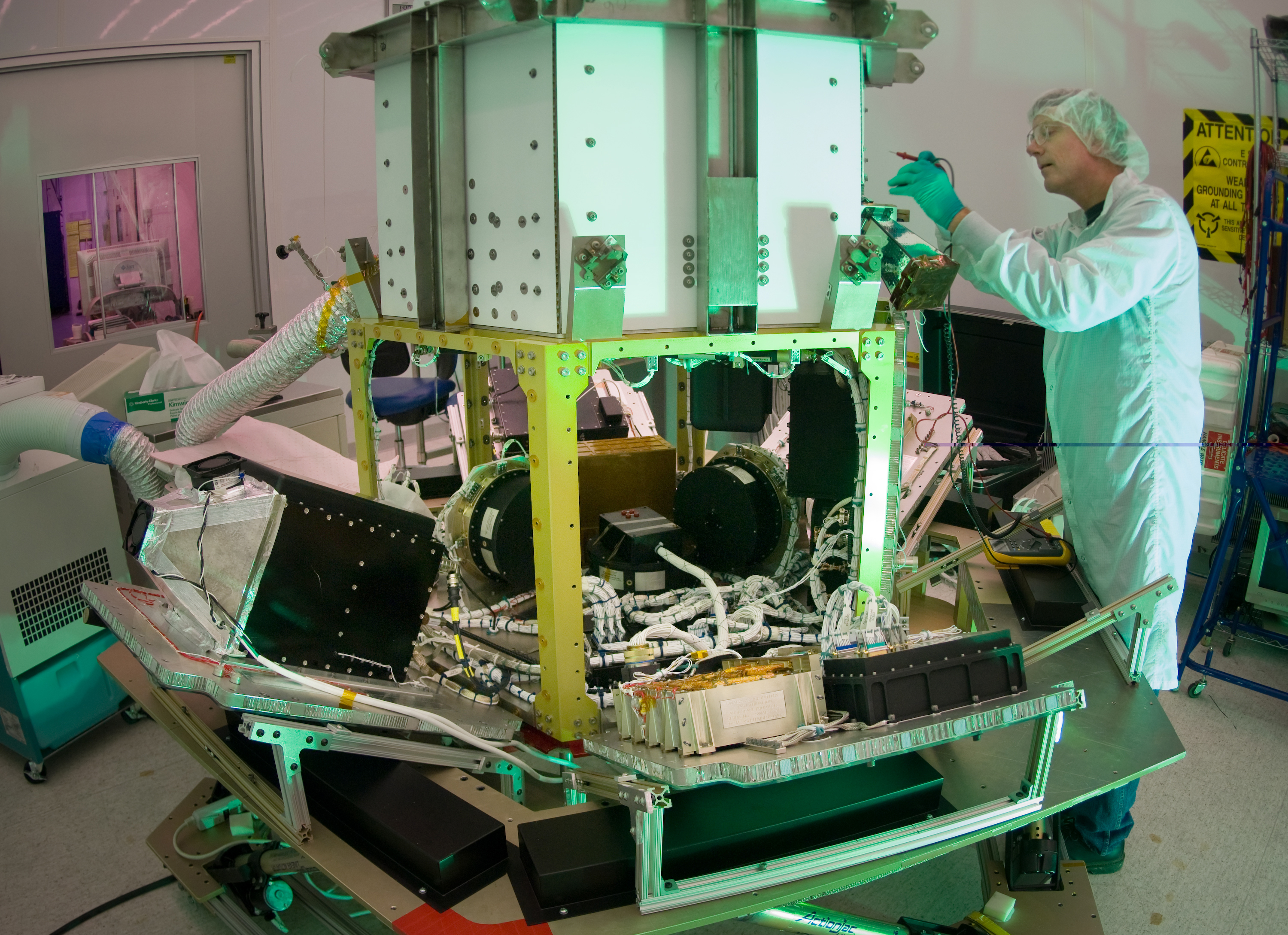 Martin Leahy performs voltage and continuity tests on a tactical satellite, known as Tactical Satellite-3, at the Space Vehicle Directorate at the Air Force Research Laboratory, Kirtland Air Force Base, N.M. The satellite is launched the 2009-05-19. Mr. Leahy is a field engineer with ATA Aerospace.